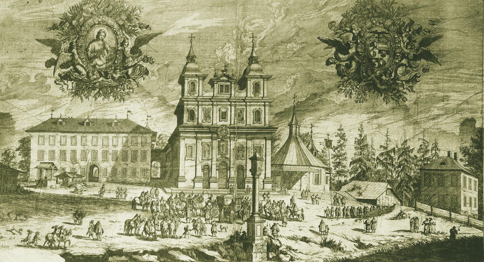 Consecration of Maria Plain pilgrimage basilica by Prince-Archbishop Max Gandolf of Salzburg in 1674. Copper engraving by M. Küsell.